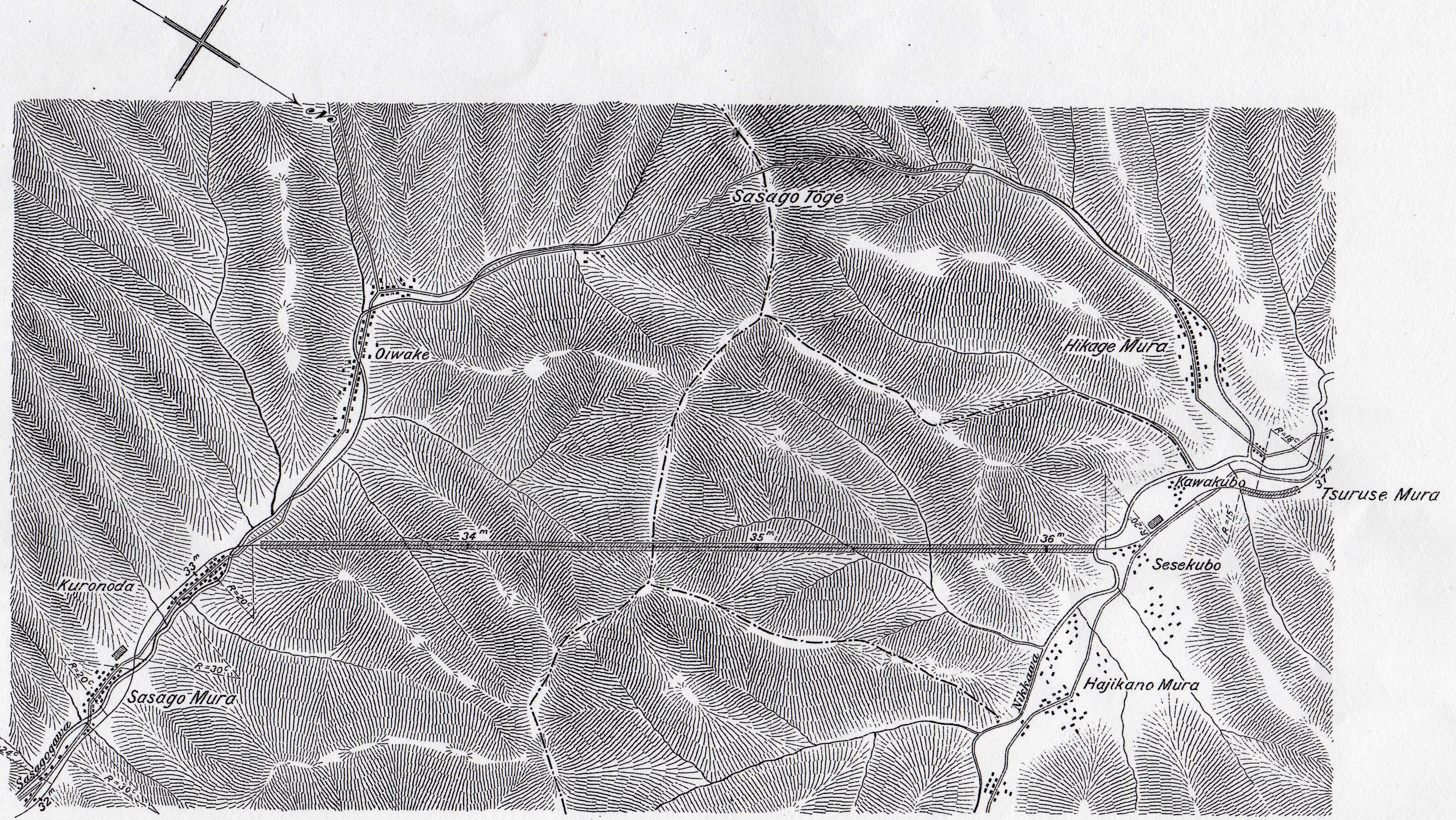 Map of Sasago railway tunnel of Chuo mainline, Yamanashi, Japan.